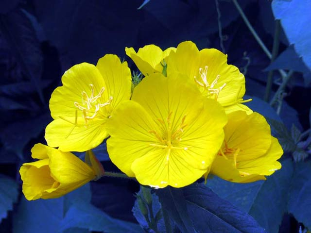 Description: Bastensko cvece Source: self-made